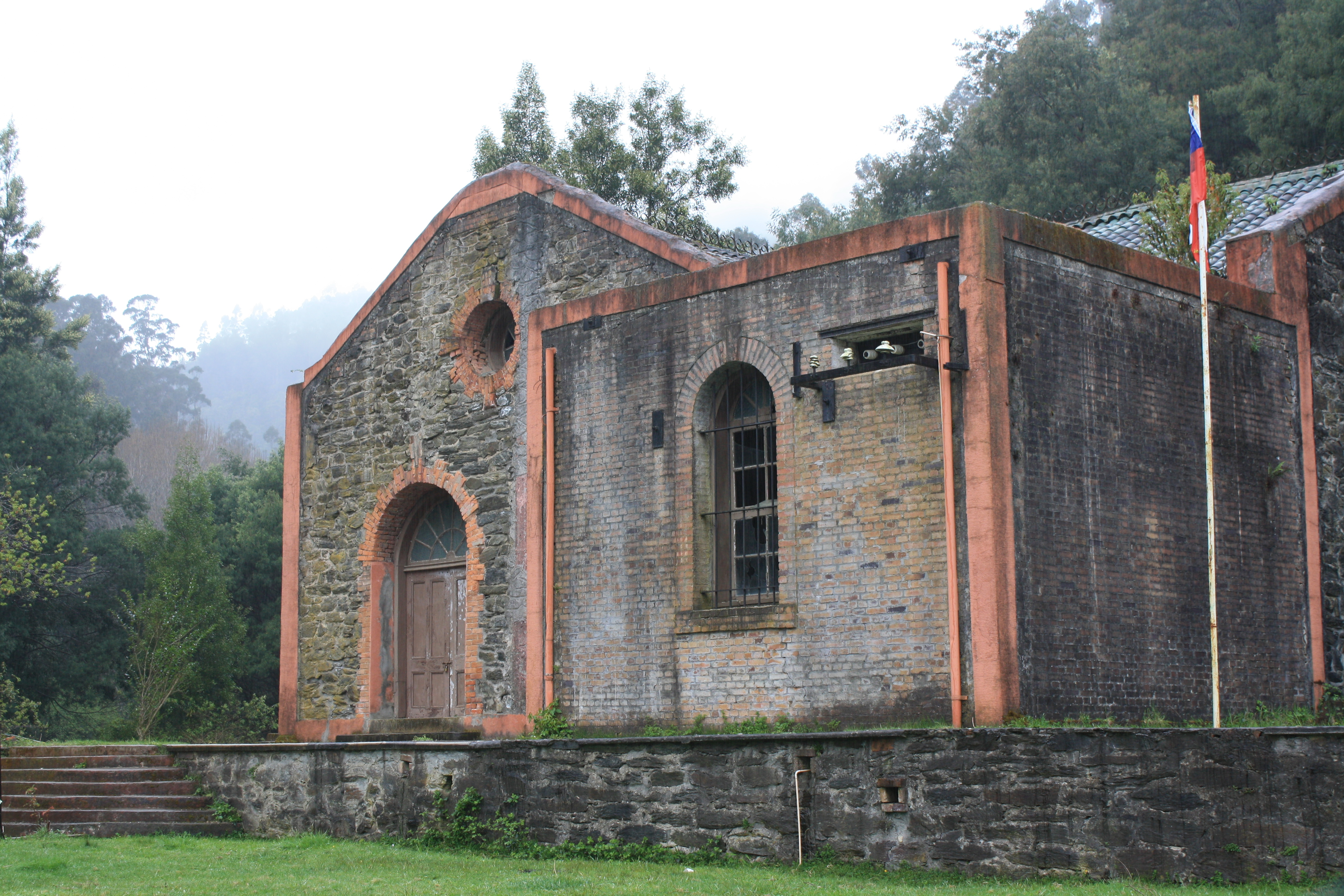 This is a photo of a national monument in Chile: 148